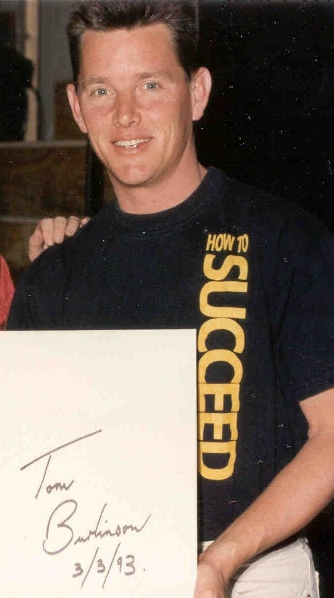 Tom Burlinson